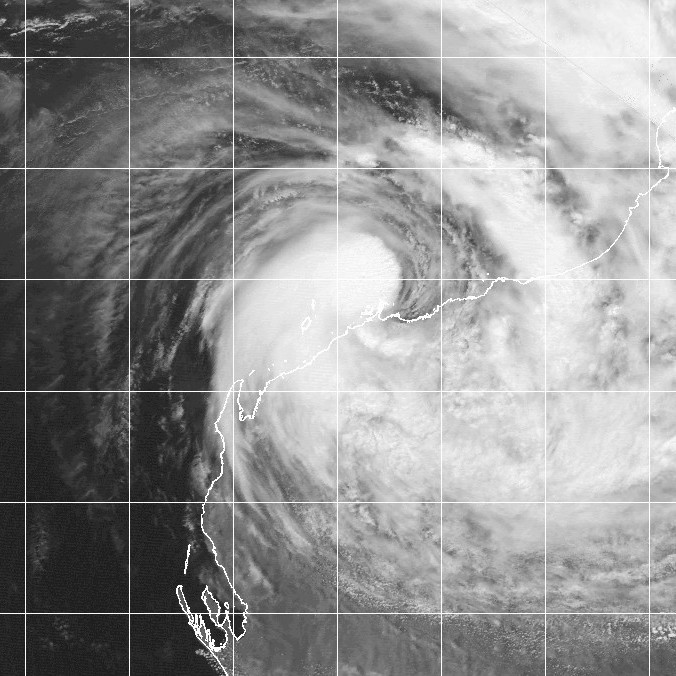 This image was captured by the TRMM satellite on March 6, 2000 at 0553 UTC. Cyclone Steve was located near the west coast of Australia with maximum sustained winds of 60 knots and a minimum pressure of 975 mb.